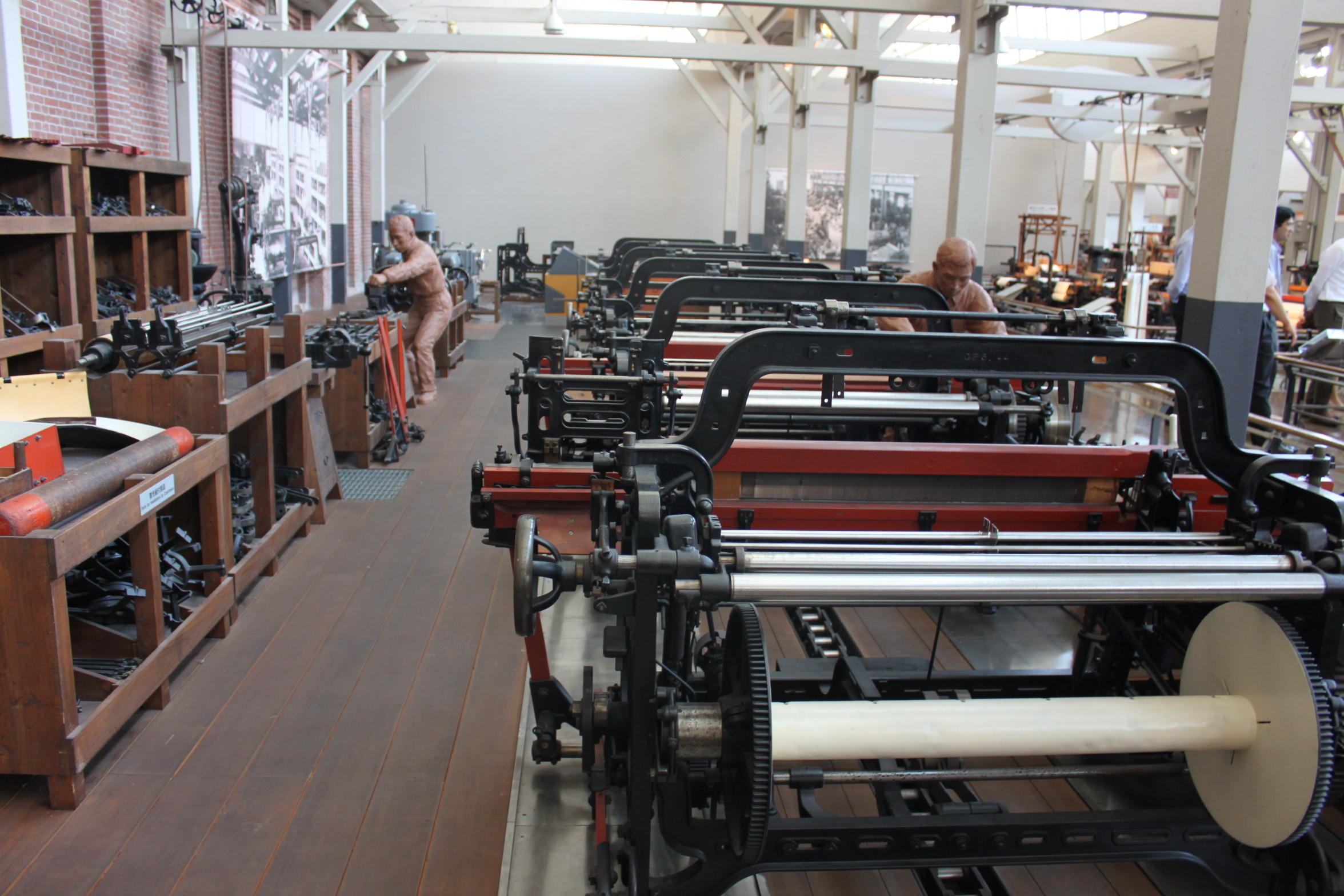 Mass production of Toyoda automated loom. Display the Toyota Museum in Nagakute-cho, Aichi-gun, Aichi Pref. Japan. By Bertel Schmitt